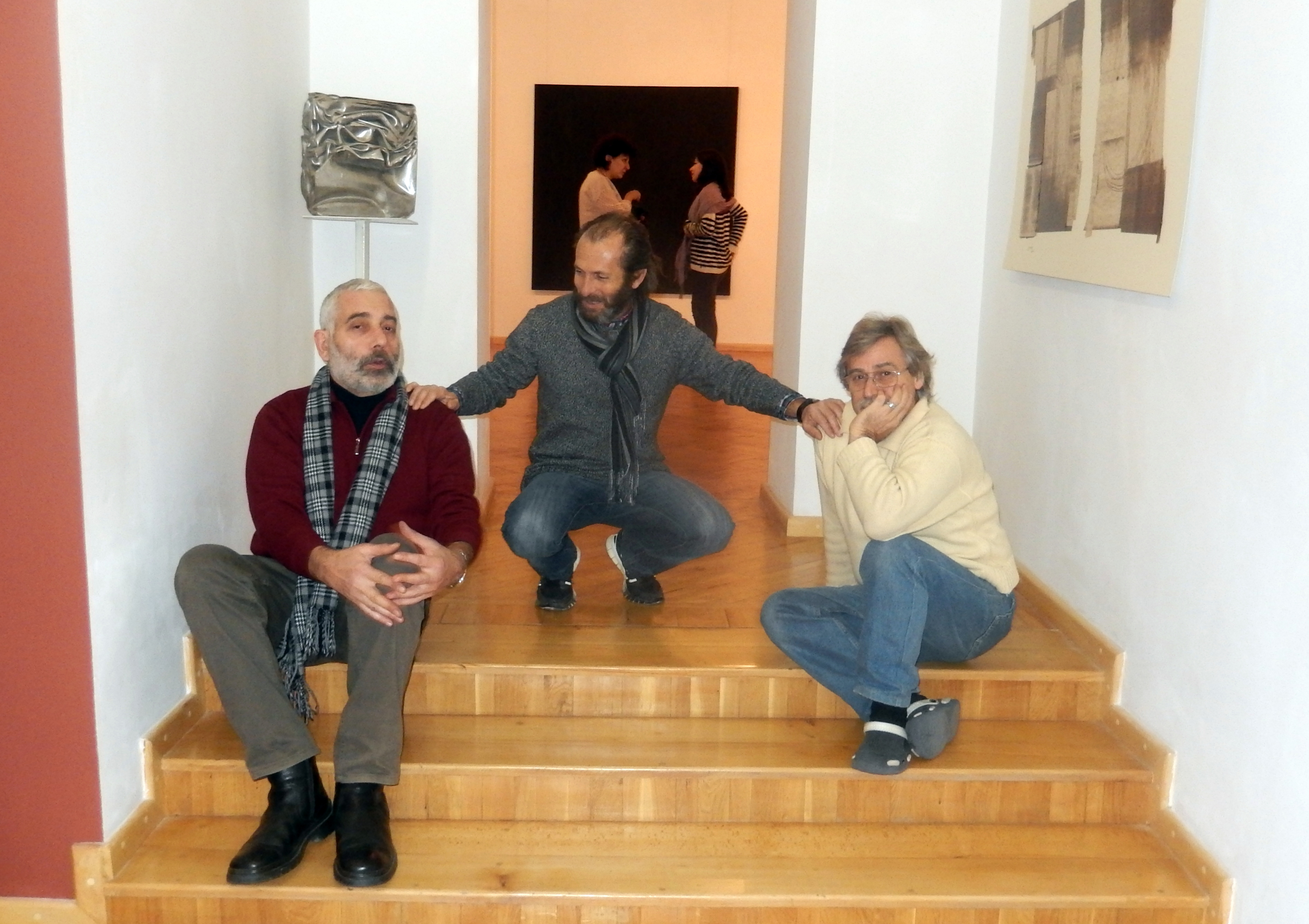 Artists Khachatur Martirosyan, Ashot Harutyunyan and Saro Galentz at Galentz museum